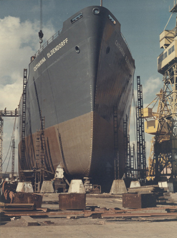 View of 'Catharina Oldendorff' ready for launch at the shipyard of Austin & Pickersgill Ltd, Sunderland, 20 August 1974 (TWAM ref. DS.AP/4/PH/2/12). Tyne & Wear Archives is proud to present a selection of images from its Sunderland shipbuilding collections. The set has been produced to celebrate Sunderland History Fair on 7 June 2014. It's a reminder of the thousands of vessels launched on the River Wear and the many outstanding achievements of Sunderland’s shipyards and their workers. These photographs reflect Sunderland’s history of innovation in shipbuilding and marine engineering from the development of turret ships in the 1890s through to the design for SD14s in the 1960s. The Sunderland shipbuilding collections are full of fascinating stories. Some of these are represented in this set, such as the ‘Rondefjell’, launched in two halves on the River Wear by John Crown & Sons Ltd and then joined together on the River Tyne. The set also shows the vital part that Sunderland’s shipbuilding industry played during the First World War. William Doxford & Sons Ltd built Royal Naval destroyers such as HMS Opal, which served in the Battle of Jutland, while other yards constructed cargo ships to help keep these shores supplied. (Copyright) We're happy for you to share these digital images within the spirit of The Commons. Please cite 'Tyne & Wear Archives & Museums' when reusing. Certain restrictions on high quality reproductions and commercial use of the original physical version apply though; if you're unsure please